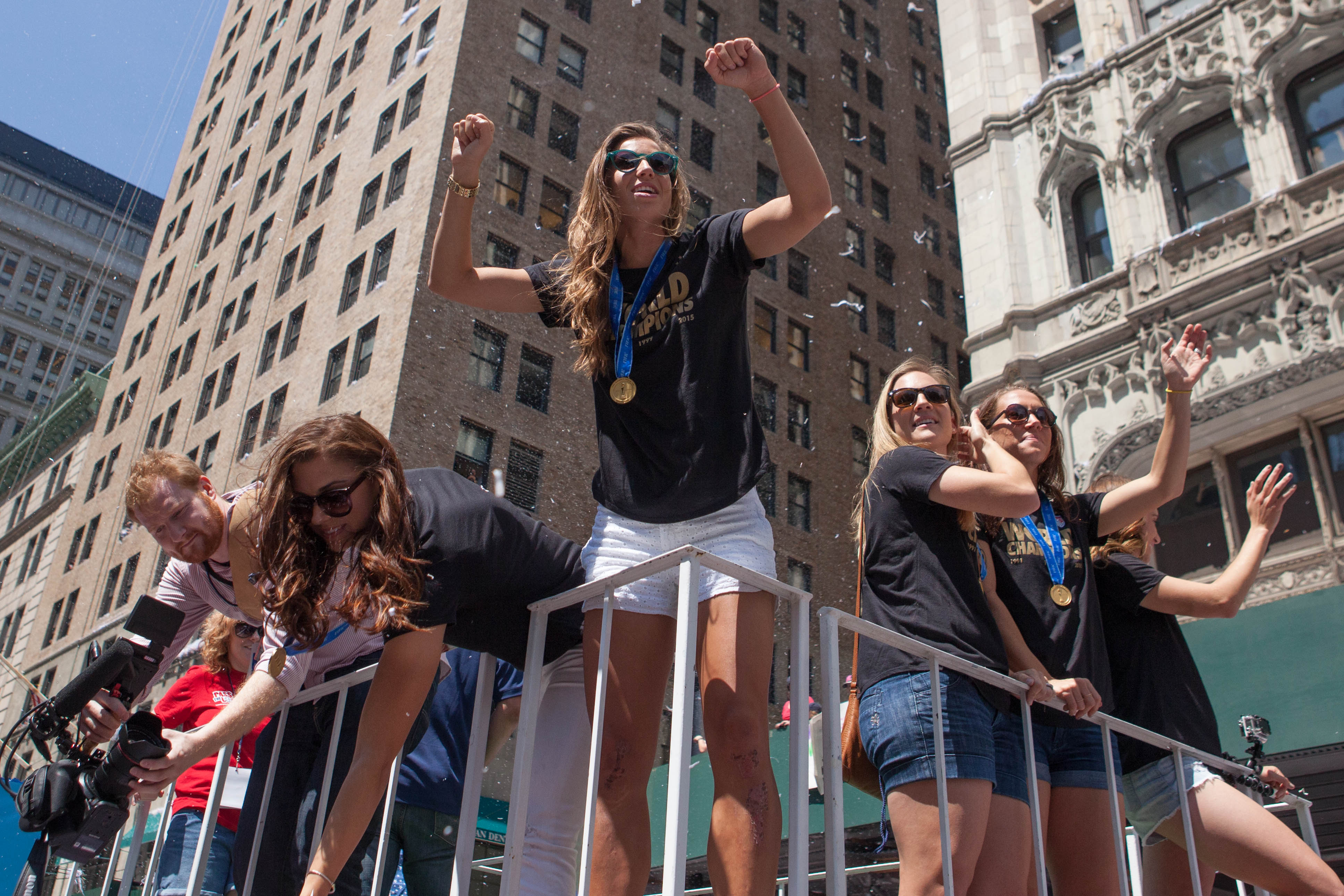 The United States Women's Soccer Team Ticker-Tape Parade New York City